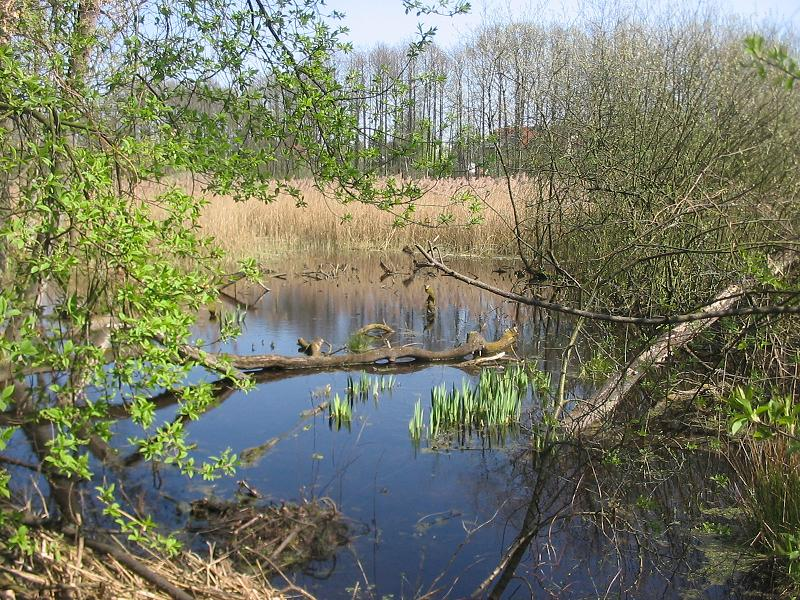 Central northern part of the the Fließwiese Ruhleben. The Fließwiese Ruhleben (Fließwiese german for: Flowmeadow) is a bog, nature reserve (german: Naturschutzgebiet), Habitats directive and part of the ecological network of protected areas of the European Union Natura 2000 in Berlin-Ruhleben in the district Charlottenburg-Wilmersdorf, Berlin, Germany. Geological and biogeographical its a part of the hill-landscape from the last glacial period Murellenberge, Murellenschlucht and Schanzenwald.